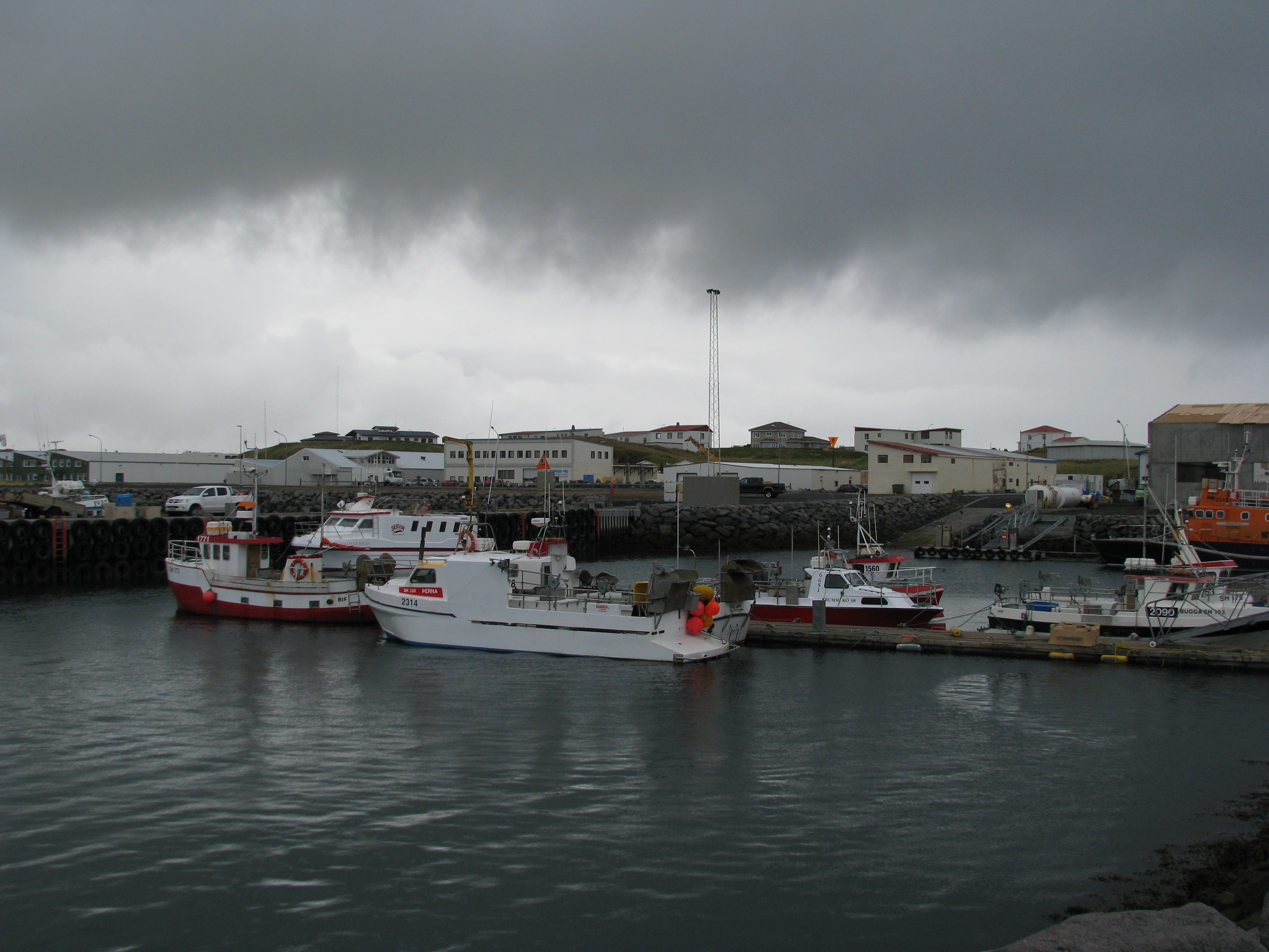 Rif, a town in Iceland